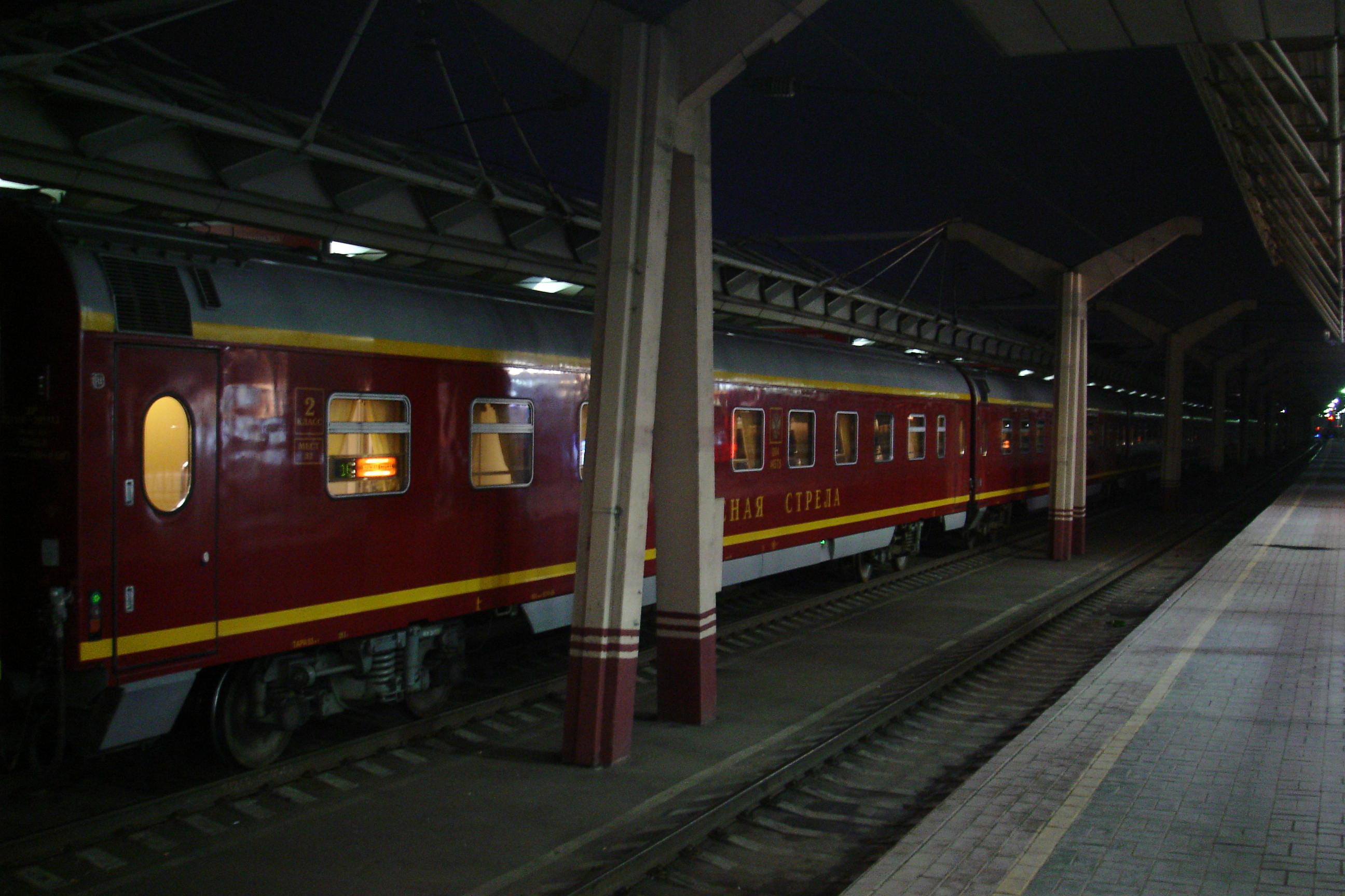 Russian named passenger train "Krasnaya Strela". Moscow, Leningradskiy station.